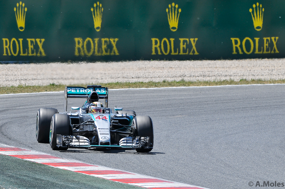 Lewis Hamilton at the 2015 Spanish Grand Prix